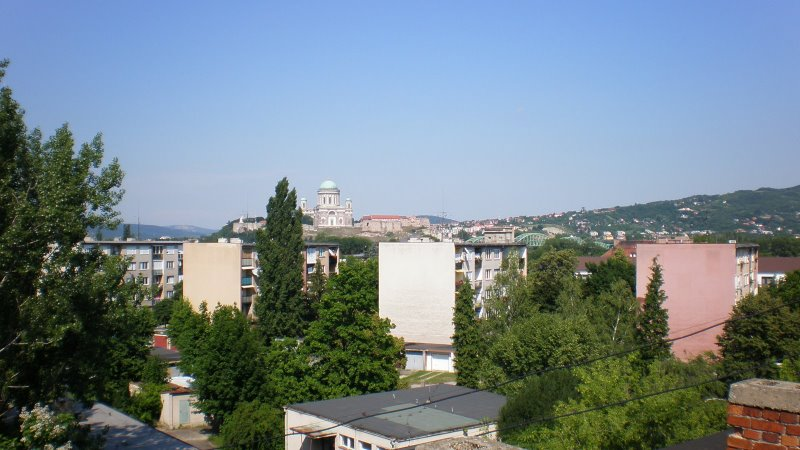 View on Esztergom